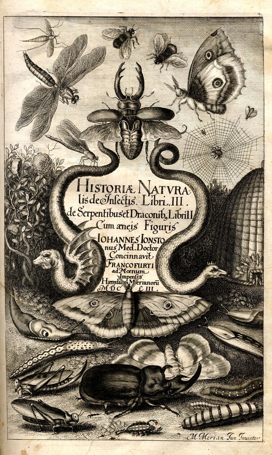 Jan Jonston: "Historiae Naturalis De Insectis", Titelblatt, Kupferstich.